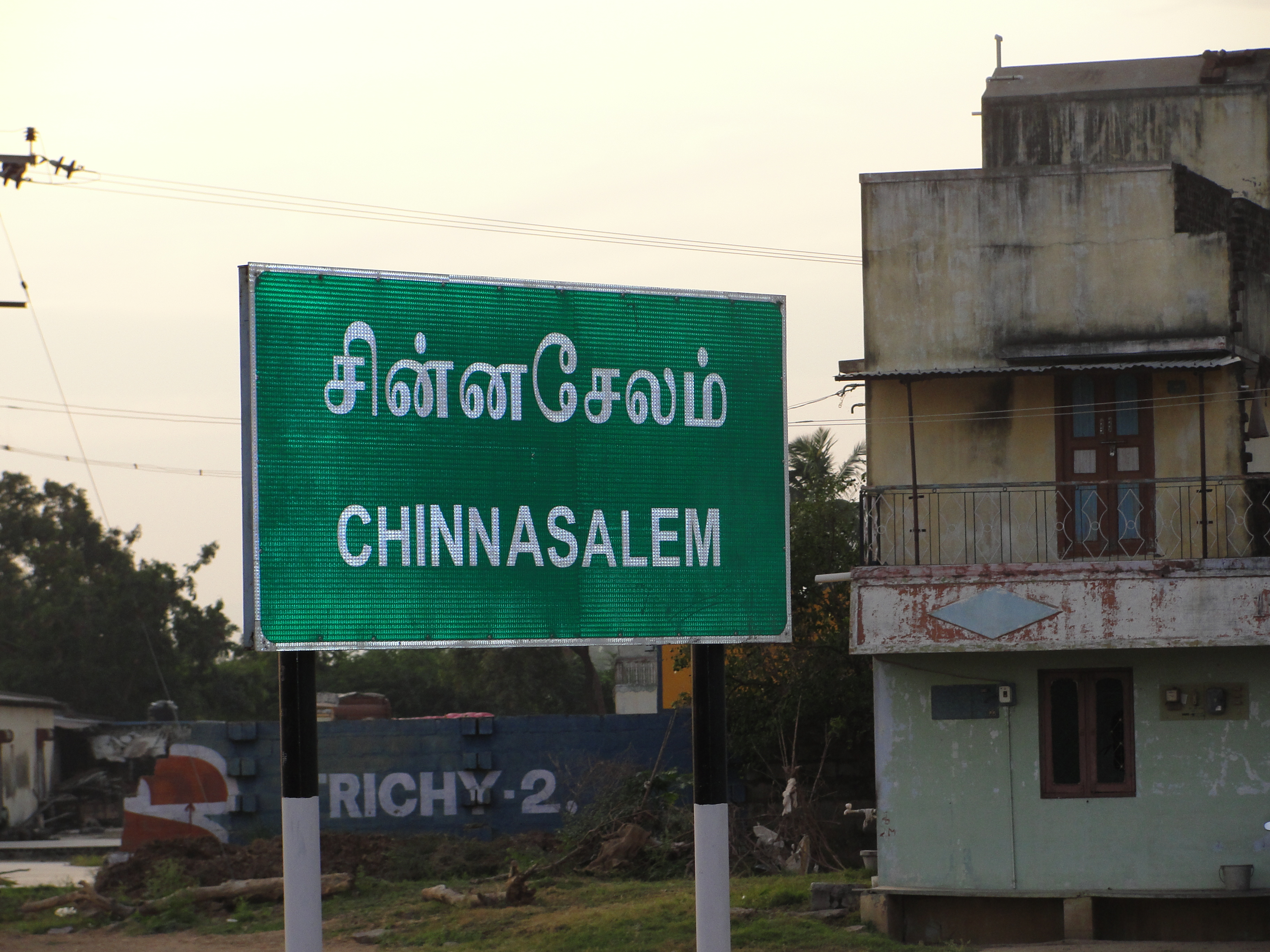 A sign board on Chinna SalemUnknown சின்ன சேலம் பெயர்ப்பலகை